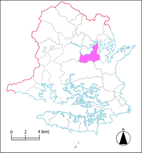 This is the map of Isobecho-Sakazaki, Shima, Mie, Japan.